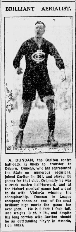 Comment on Duncan's imminent move to Coburg